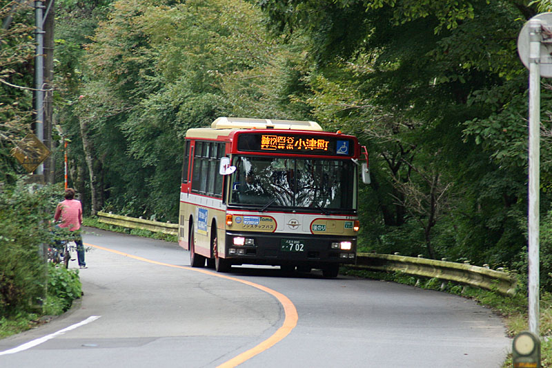 Nishi Tokyo Bus route Jin 12 (now defuncted) 西東京バス 陣12系統（現廃止）